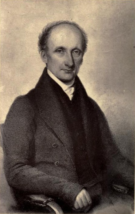 A cropped picture from "Memoirs of the Life of Rev. Lant Carpenter, LL.D." By his son, Russell Lant Carpenter. Published: Green, Newgate Street, London, England and Philip and Evans, Calre Street, Bristol, England , 1842 and by Google Books online